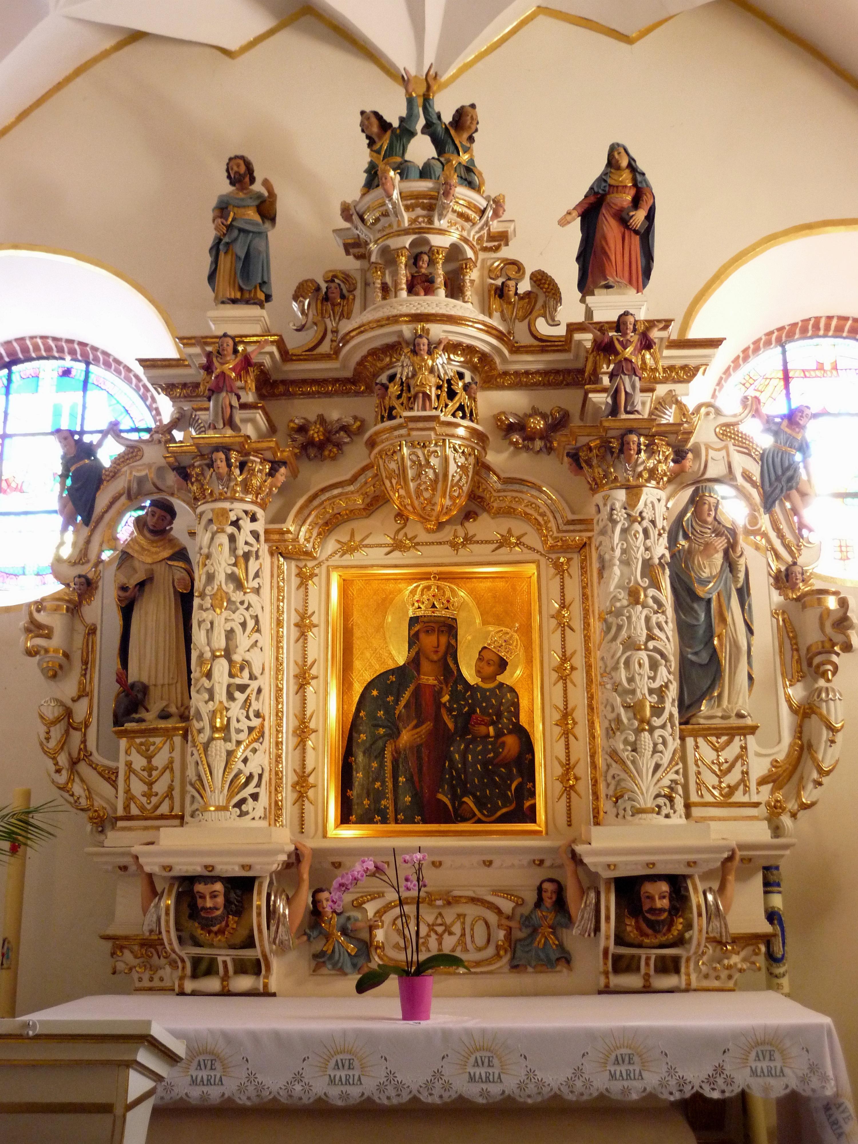 Renaissance altar of Our Lady in the cathedral of Łomża